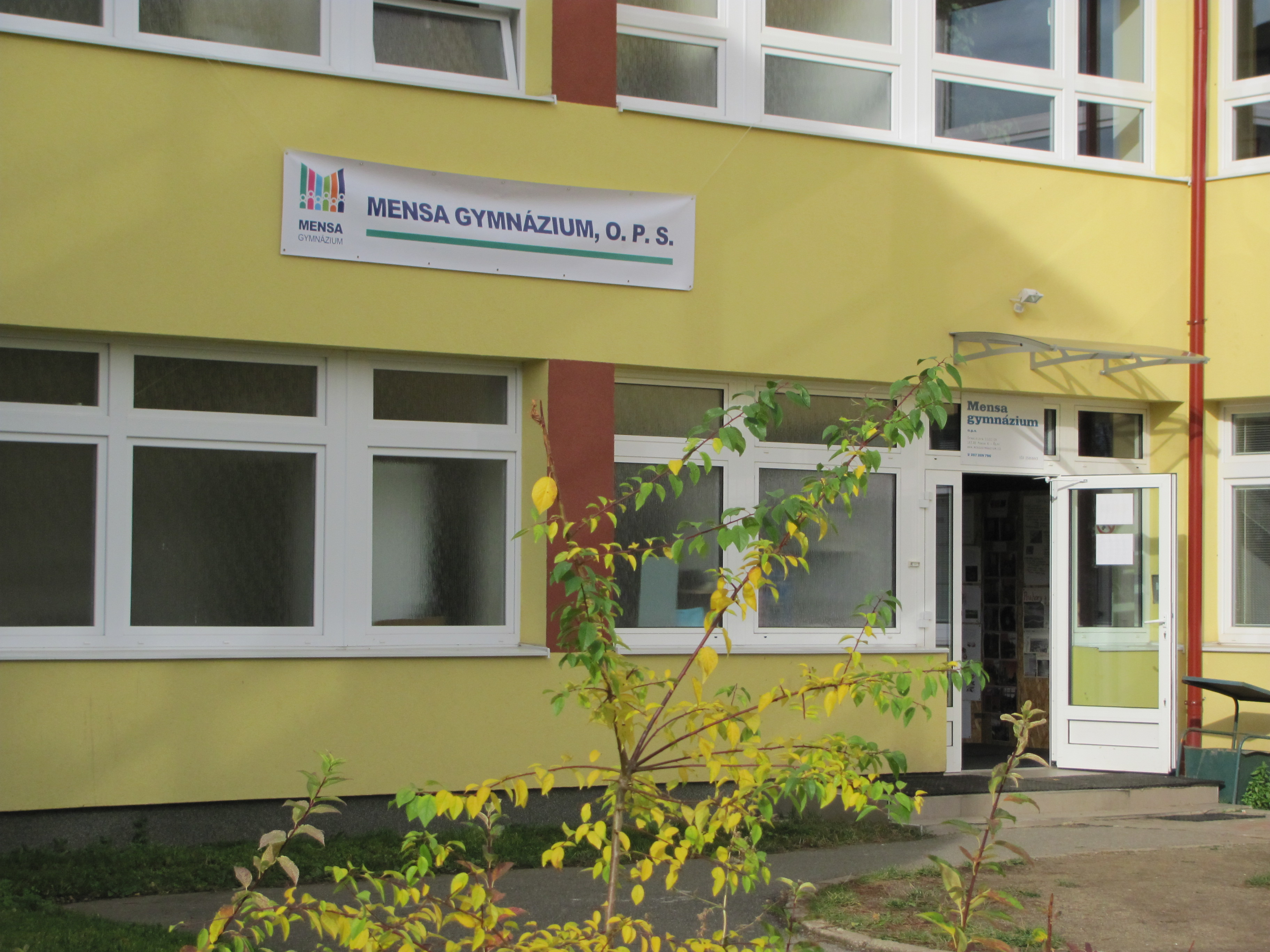 Gymnasium (high school) for gifted children, founded in 1993 by Mensa Czech Republic and from 2010 located in Prague – Řepy in this building – entrance door.